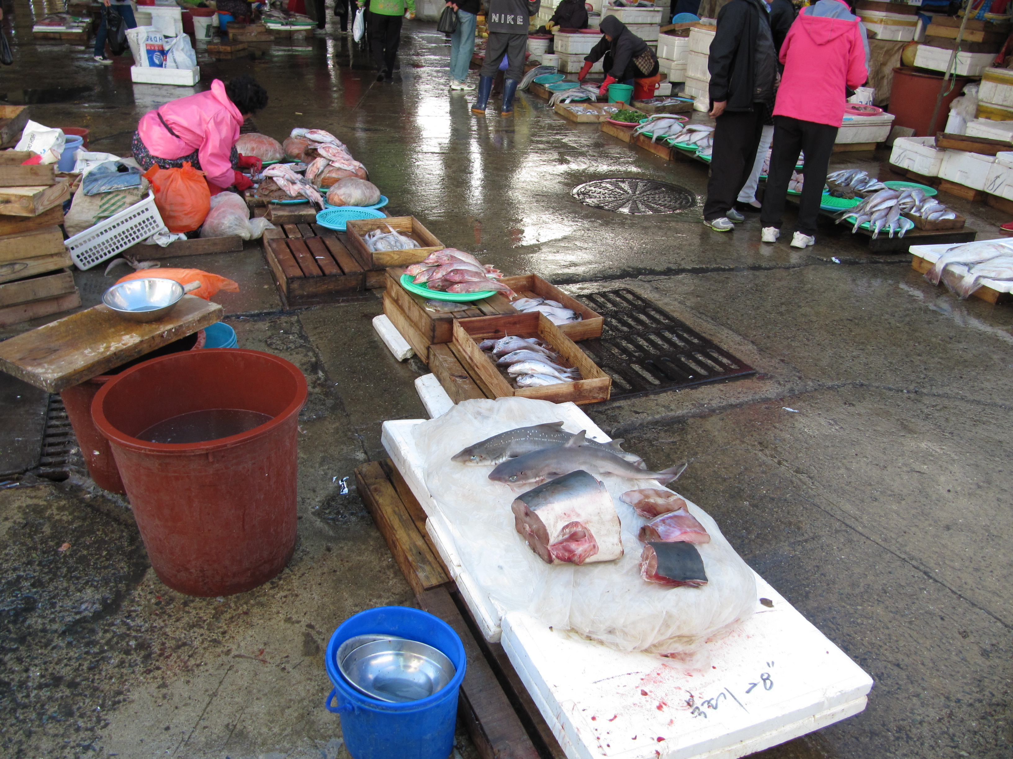 Jagalchi Market